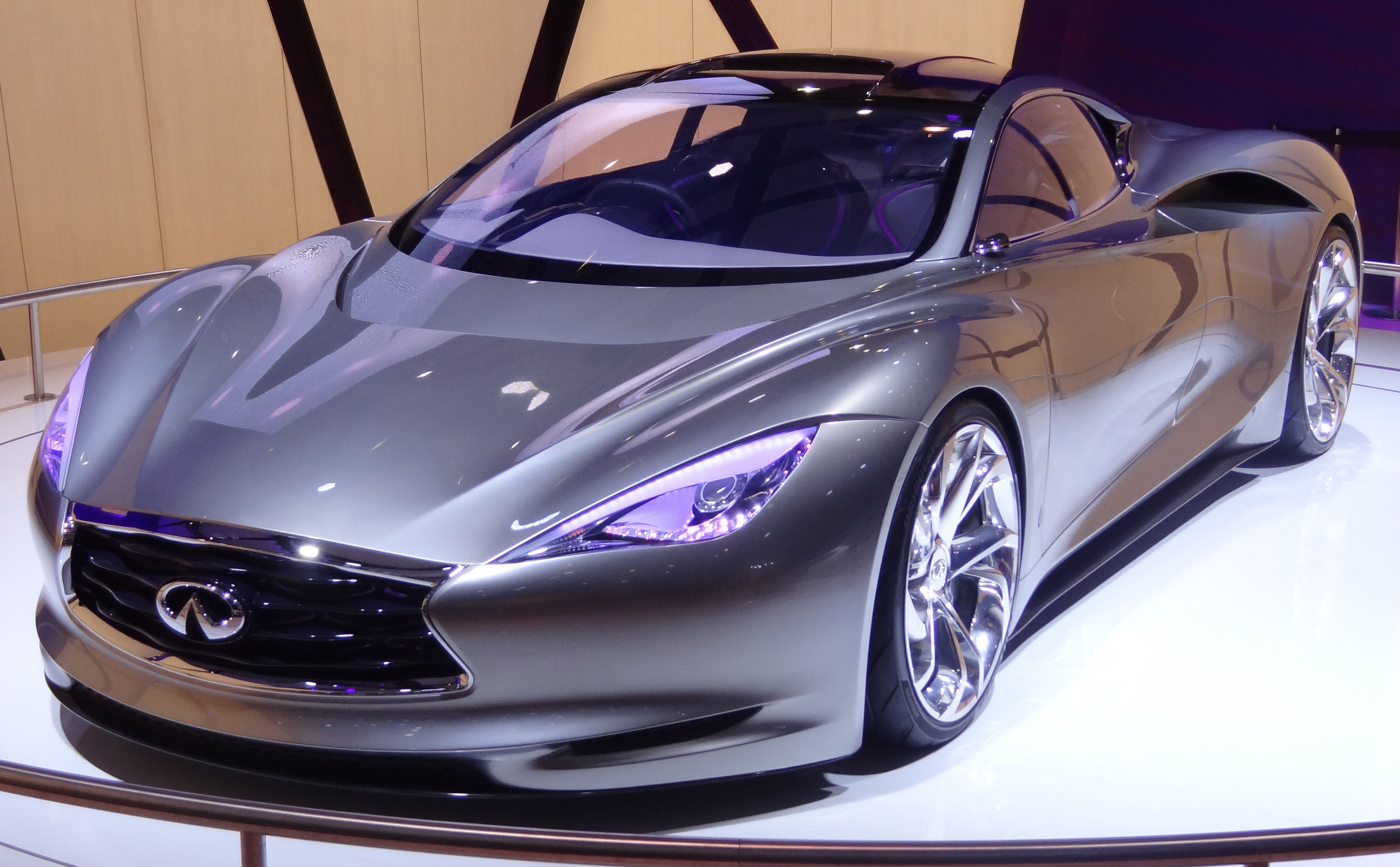 Infiniti Emerg-e concept